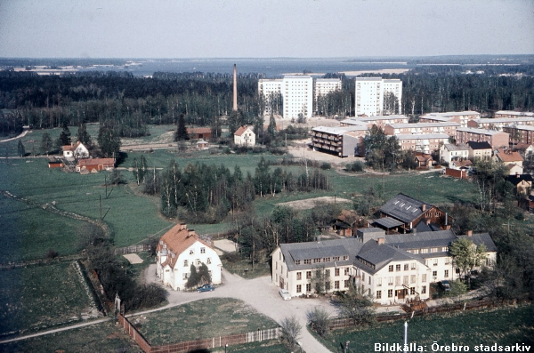 Norrby, a part of Örebro city, Sweden